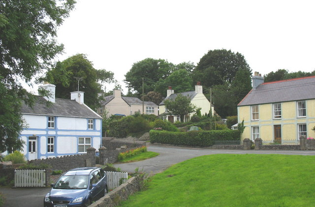 Houses near the crossroads at Talwrn